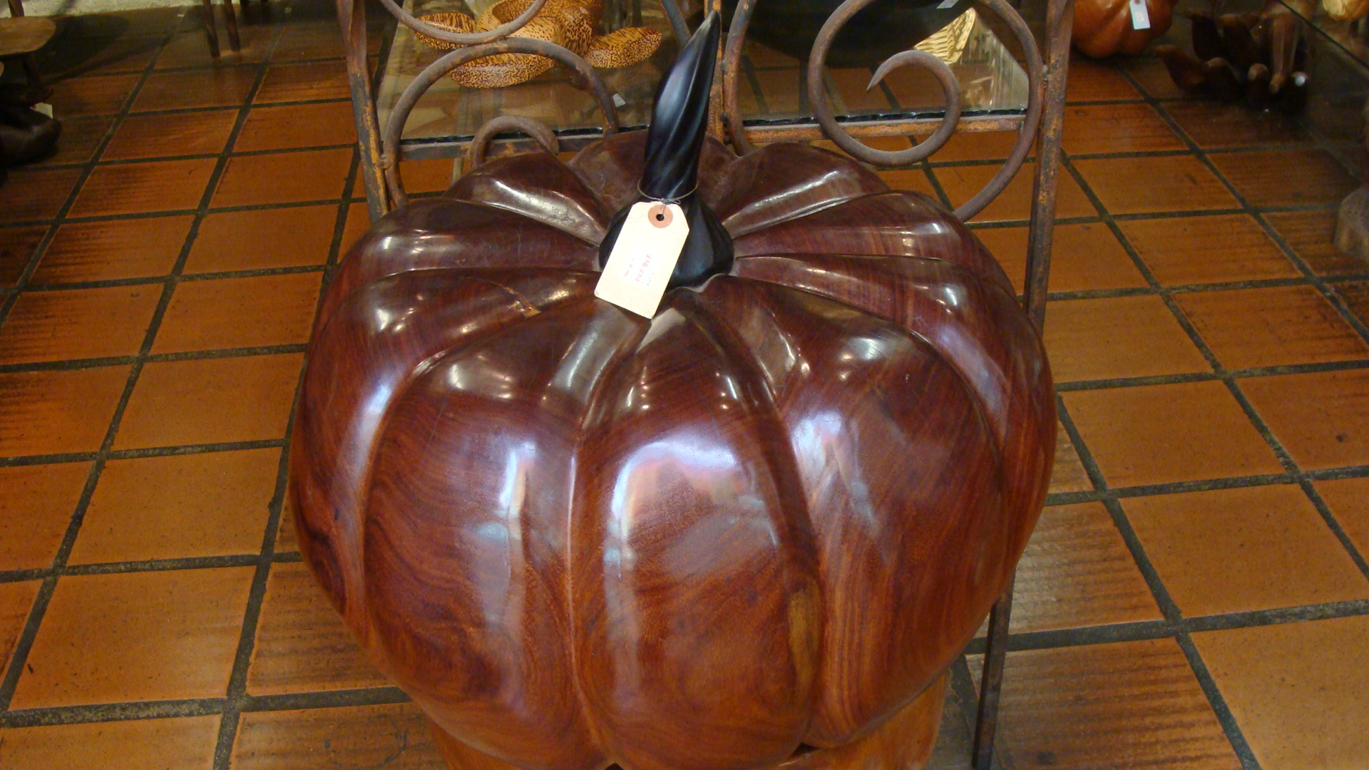 Mahogani wood